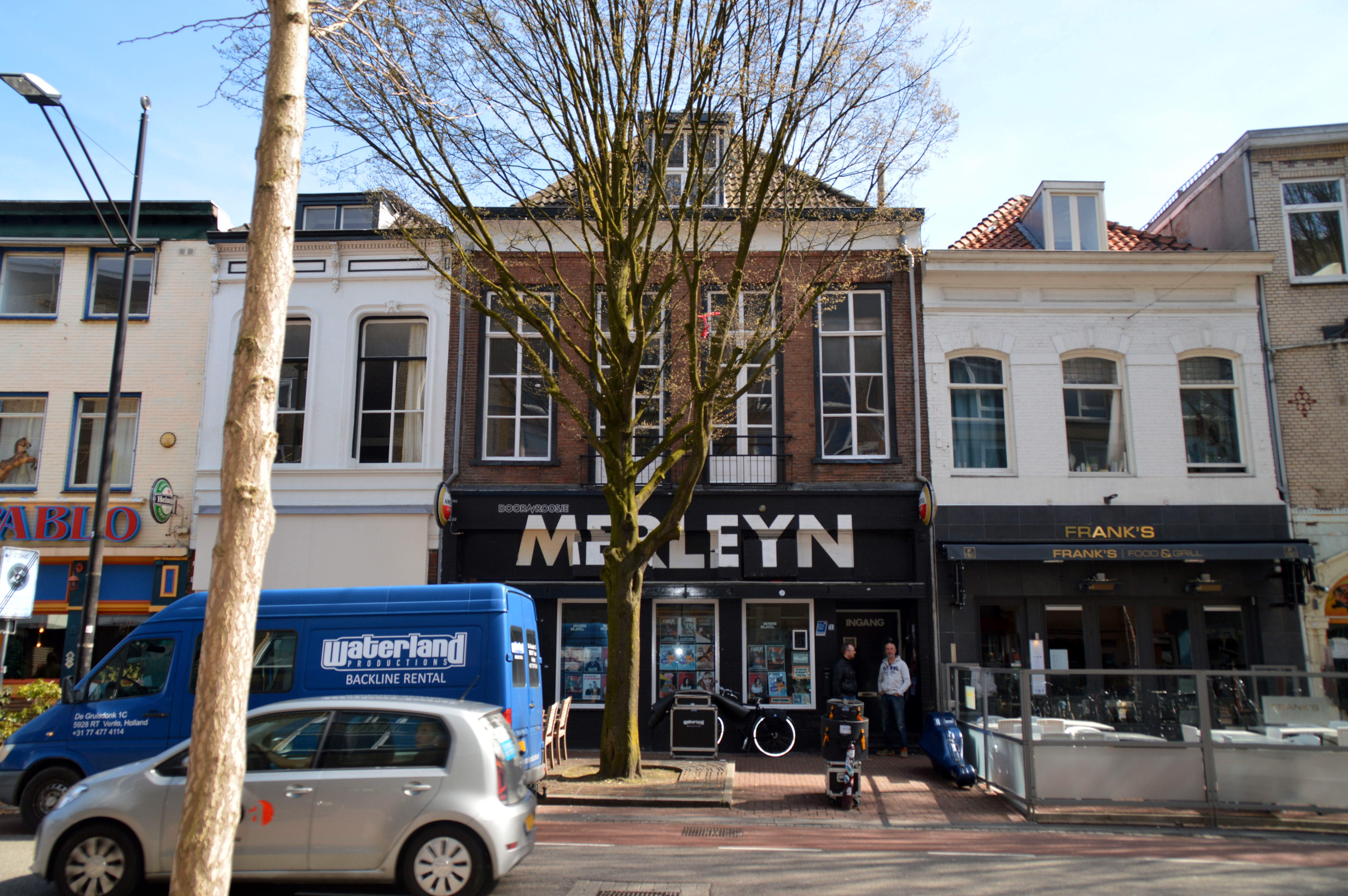 Merleyn Doornroosje Hertogstraat 13 Nijmegen